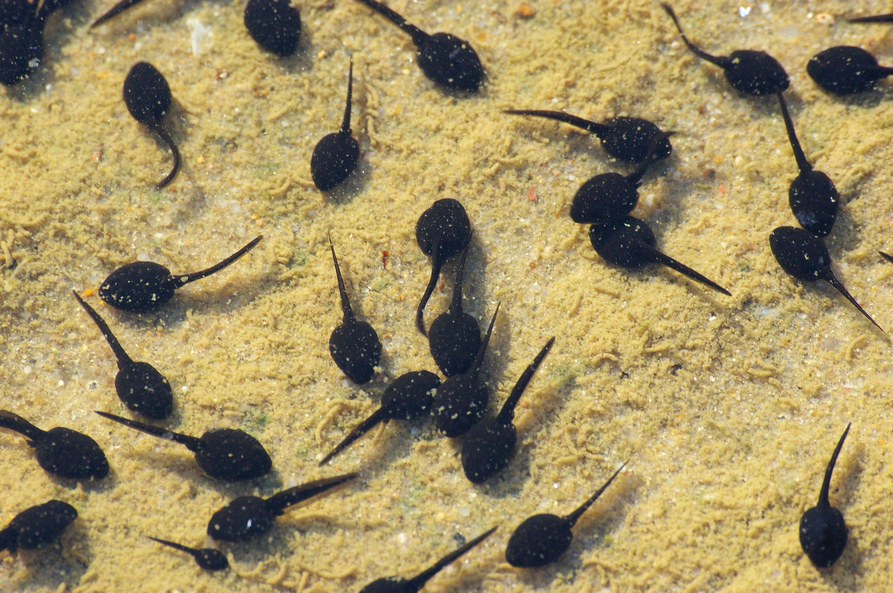 Tadpoles from the Natterjack Toad, Epidalea (Bufo) calamita, within a shallow pool in a gravel pit.